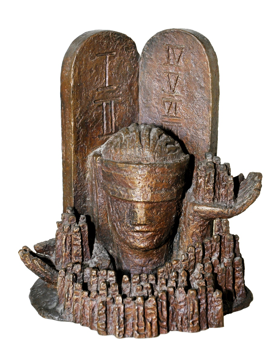 Photograph of the bronze figure "Justitia" of german artist Franziska Lenz-Gerharz.